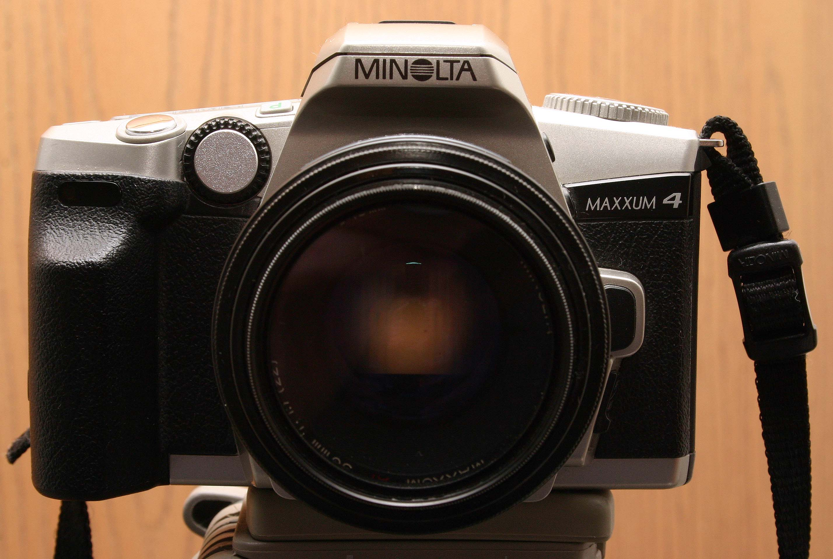 Camera with a Canon EOS Digital Rebel. The Minolta Maxxum 4 is on a Sunpak Platinum tripod. The lens is not the one Minolta shipped the camera with, it is a much older lens.